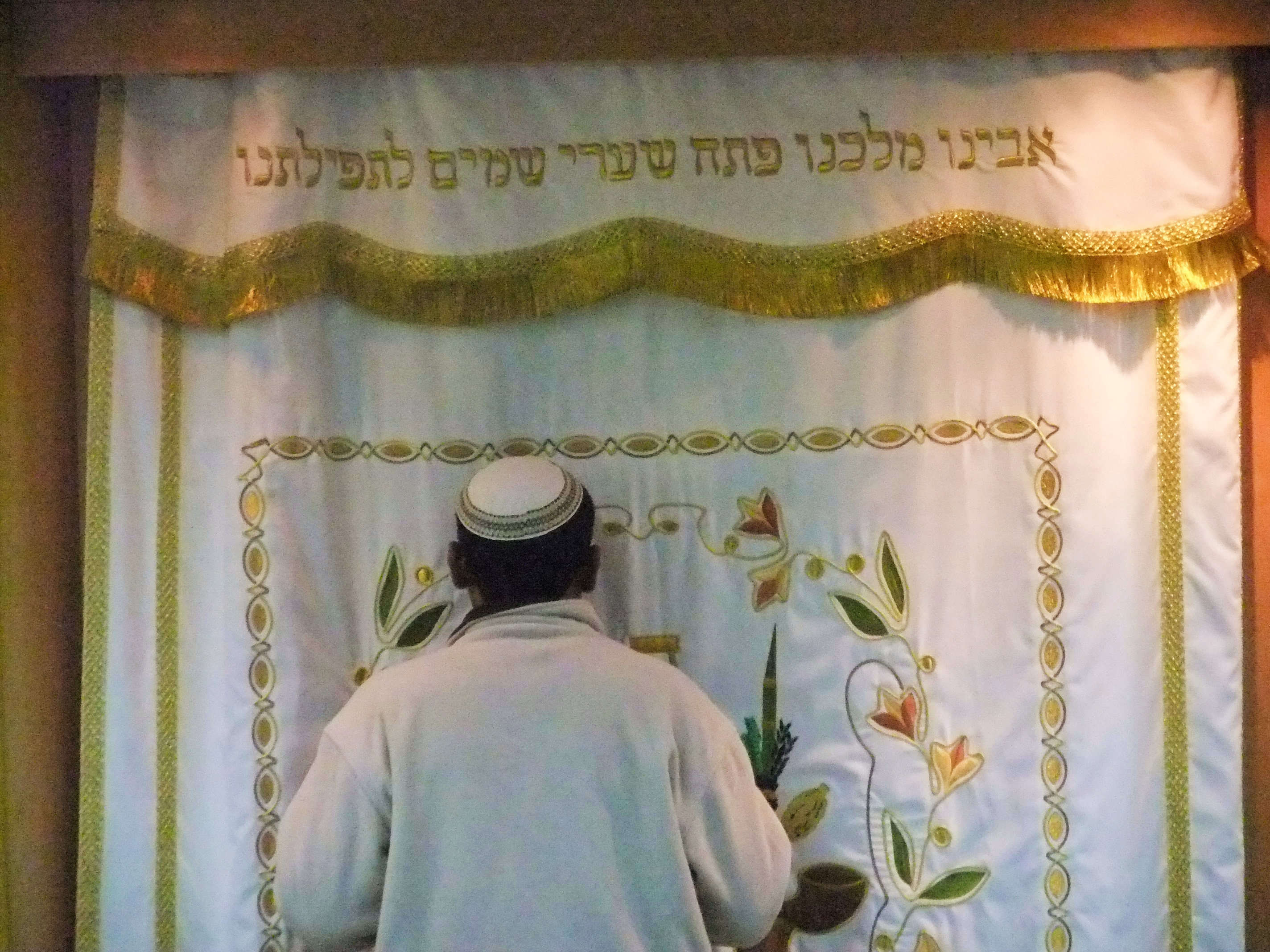 Person standing near a Parochet for Tishrei Holidays